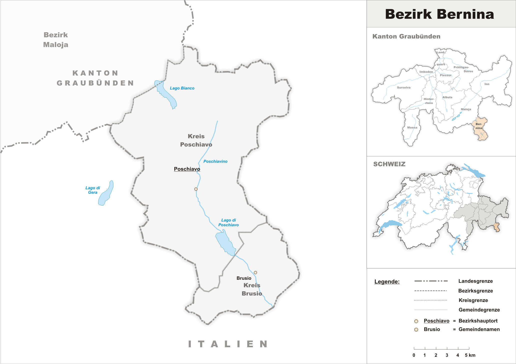 Municipalities in the district of Bernina